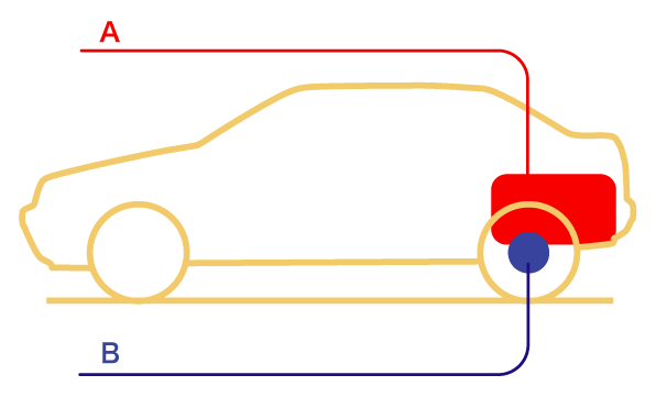 A rear engine rear-wheel-drive conception diagram by a car terminology. A part pointed at in "A" is an engine.And a part pointed at in "B" is a driving wheel